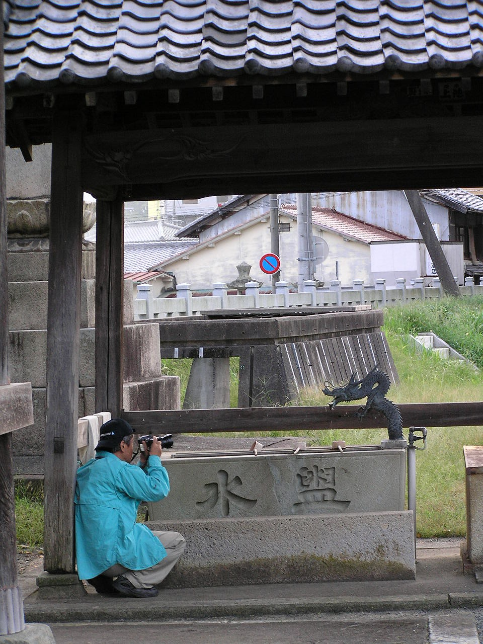 A man taking photographs of the statue of dragon